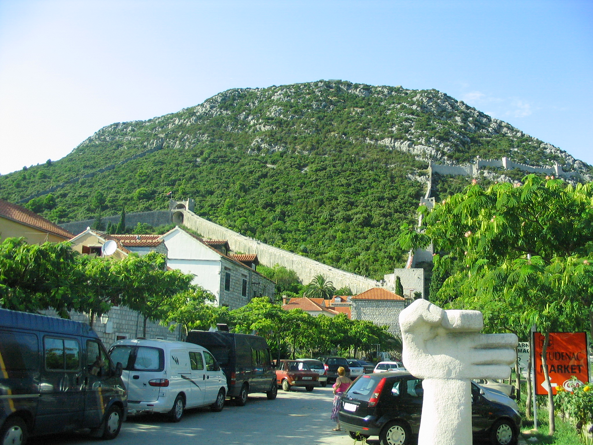 Fortifications at Ston (Croatia)